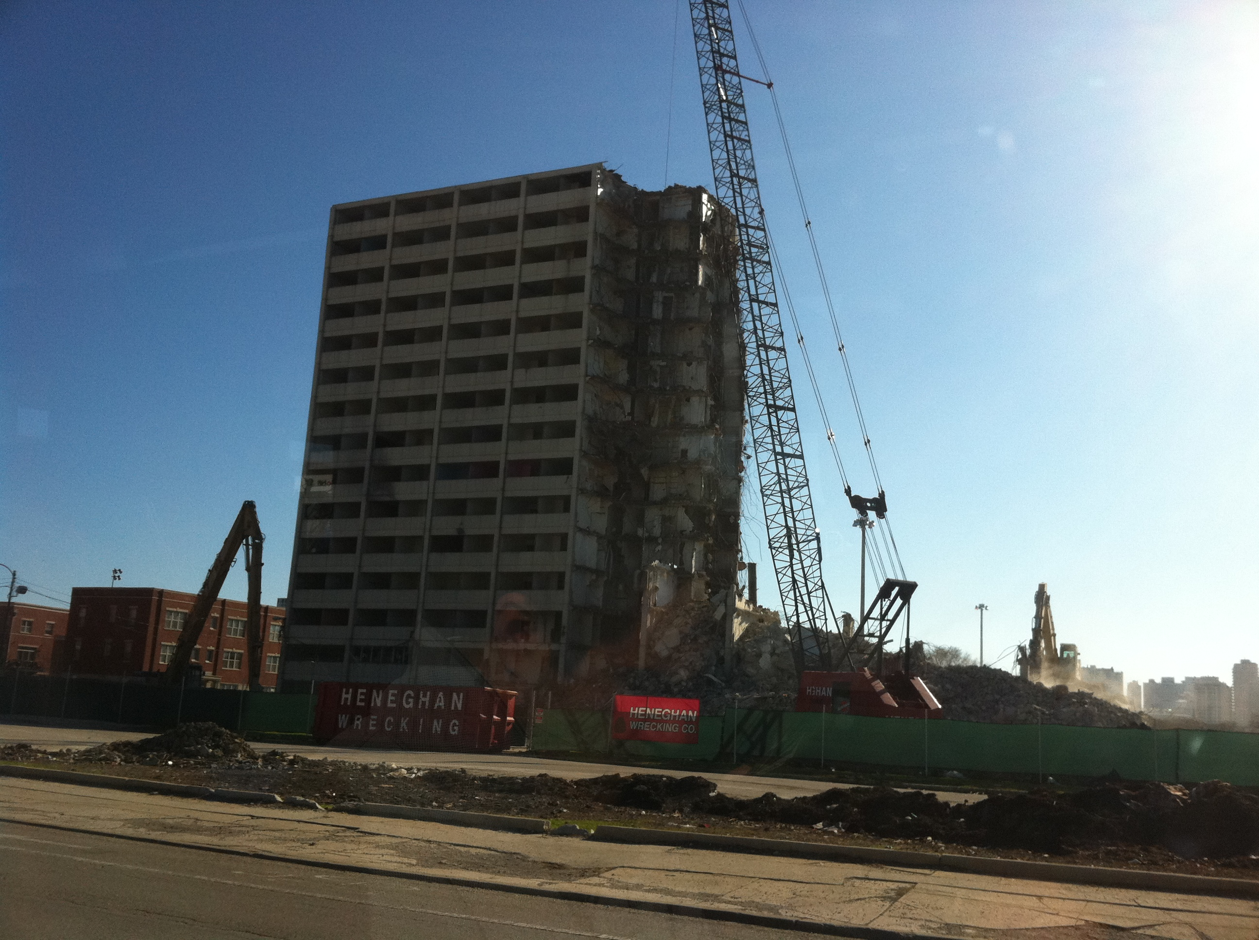 Cabrini Green as its getting demolished